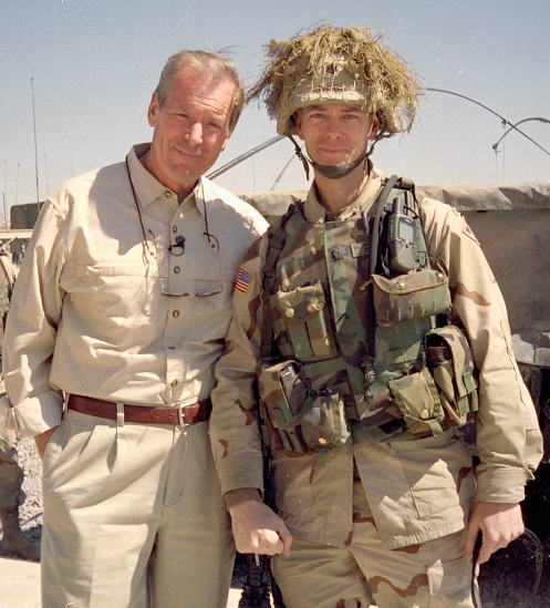 The late Peter Jennings of ABC News with Steve Russell, Tikrit, Iraq, March 2004.